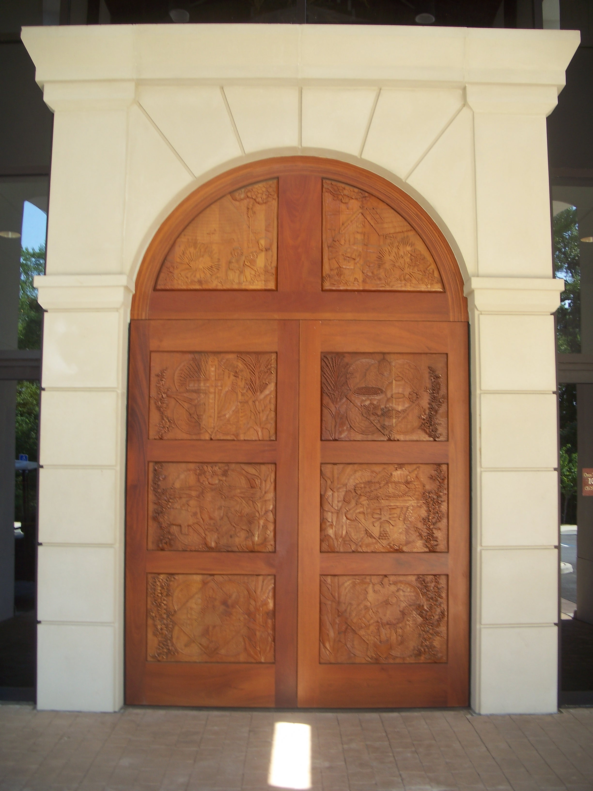 Tallahassee, Florida: Mission San Luis de Apalachee